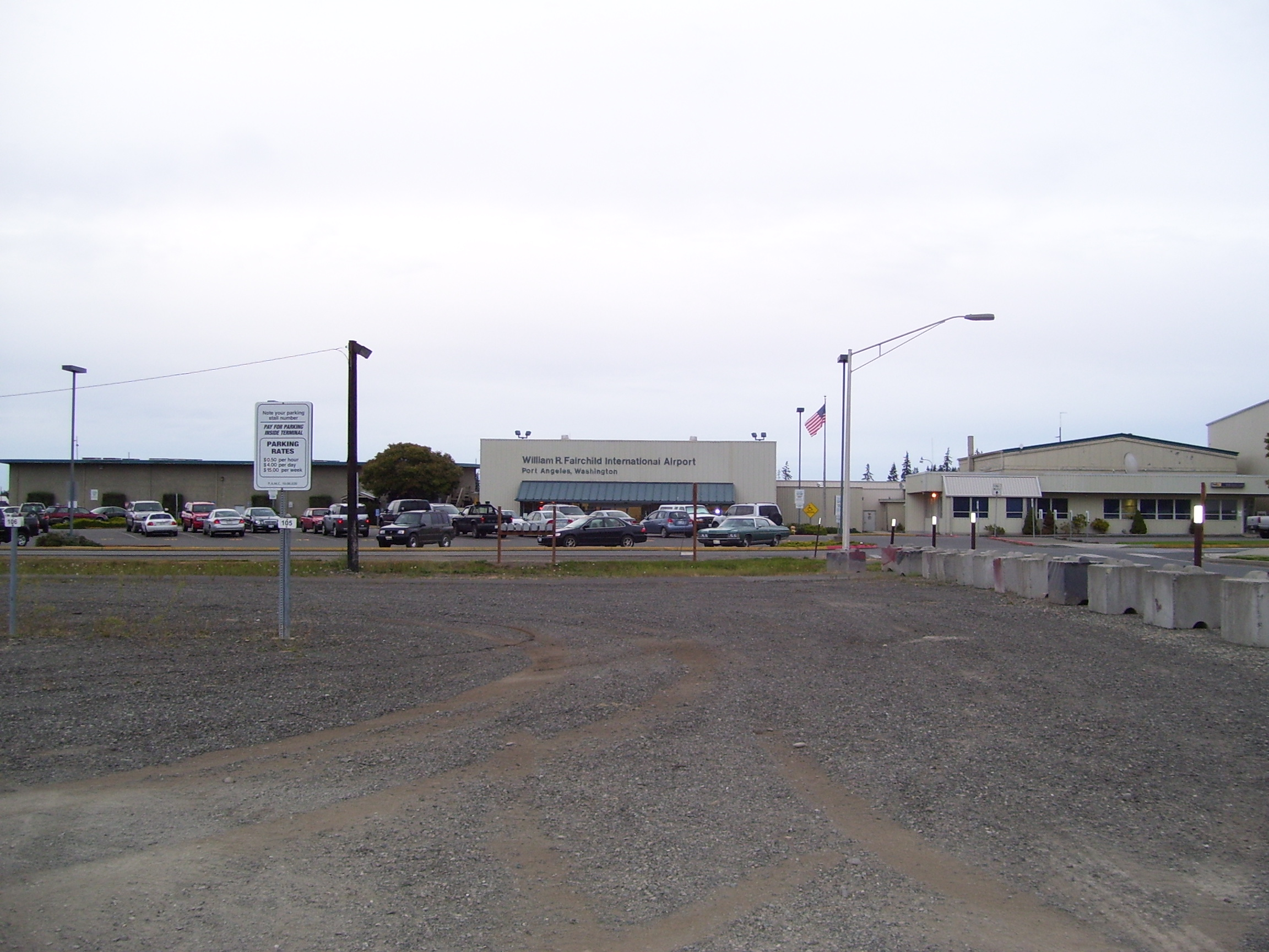 Fairchild Airport in Port Angeles, Washington.